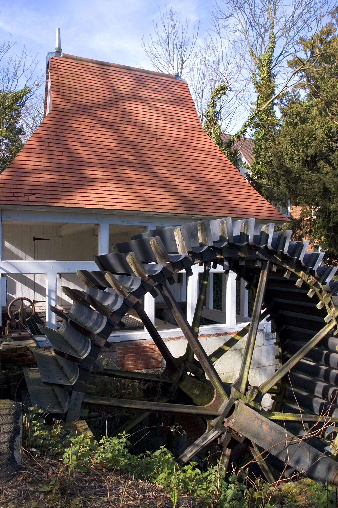 Upper Mill in Grove Park, Carshalton. A site of a mill for centuries, although this is a restoration that was completed in 2004 after a fire. A head of water to power this mill was produced by Grove Park cascade